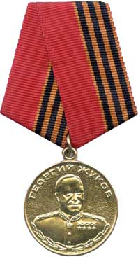 Russian Federation, State Decoration instituted on 9 May 1994. Awarded to veterans of the Red Army, Navy, NKVD troops, guerrillas and the underground for bravery, fortitude and courage displayed in fighting the German fascist invaders, the Japanese militarists, and to celebrate the 100th anniversary of the birth of GK Zhukov. Also awarded by the Ministry of Defence of the Russian Federation, other ministries and departments, where Russian law provides for military service, for courage and bravery shown in combat in defence of the Fatherland and public interests of the Russian Federation.